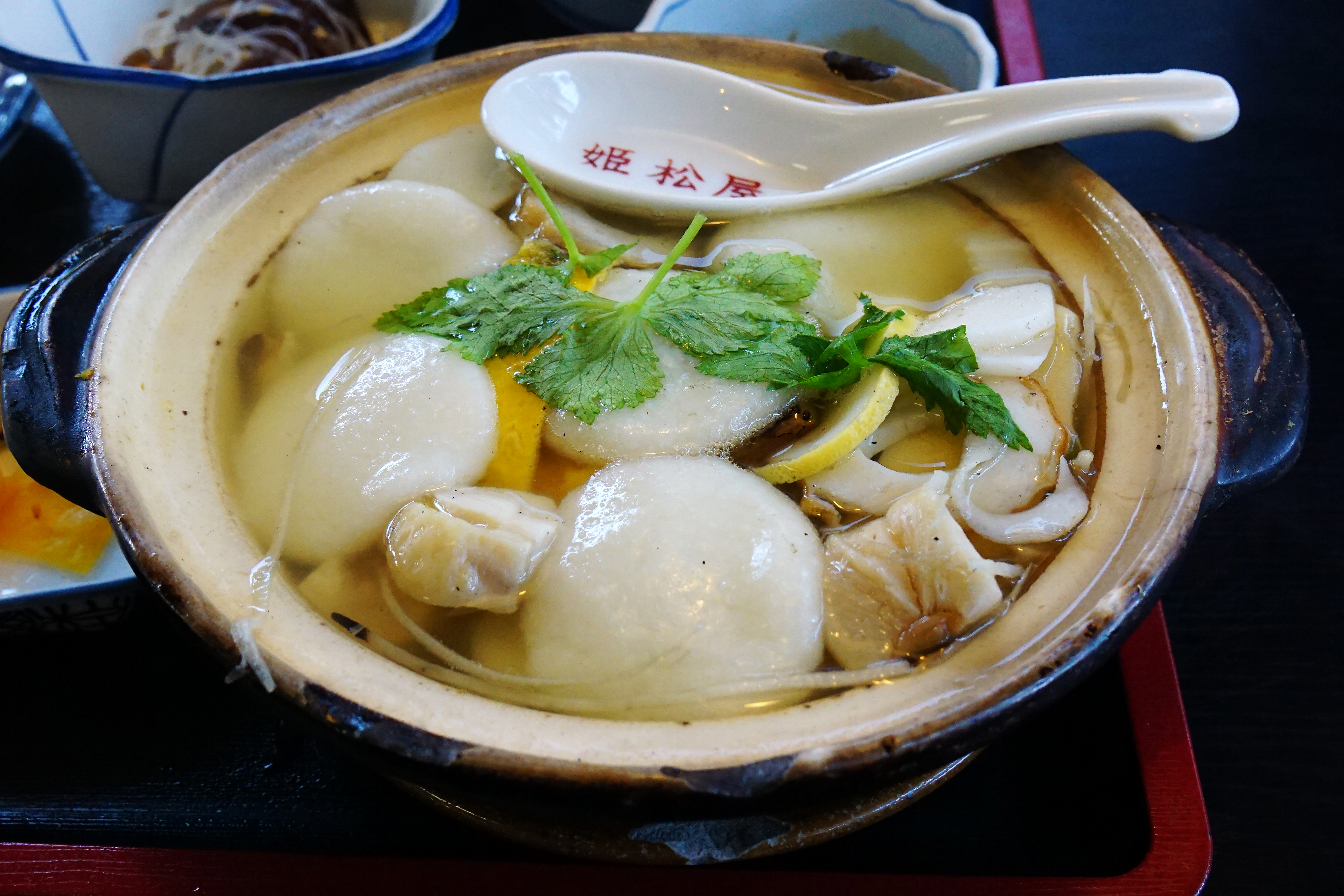 Guzouni at Restaurant Himematsuya in Shimabara, Nagasaki prefecture, Japan.